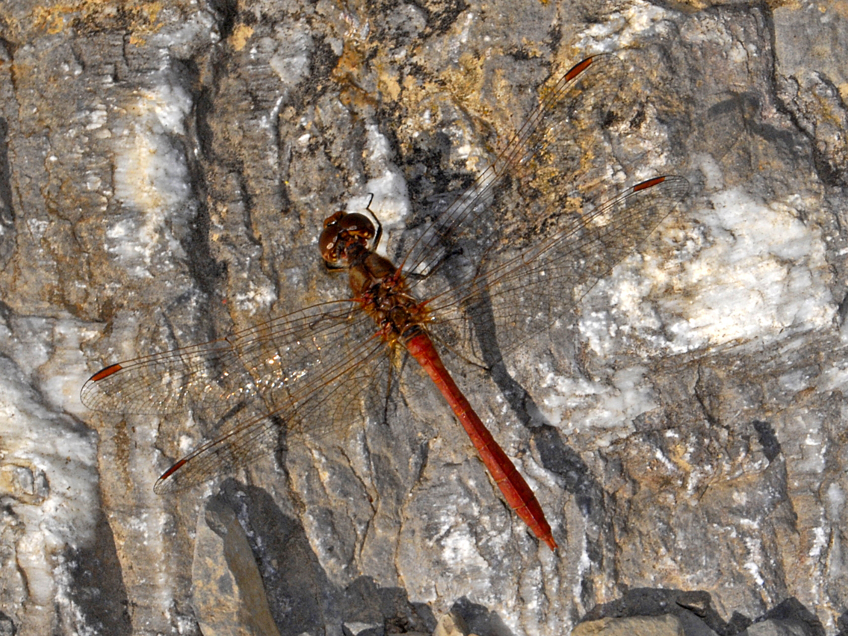 Sympetrum meridionale, male. Genova, Italy